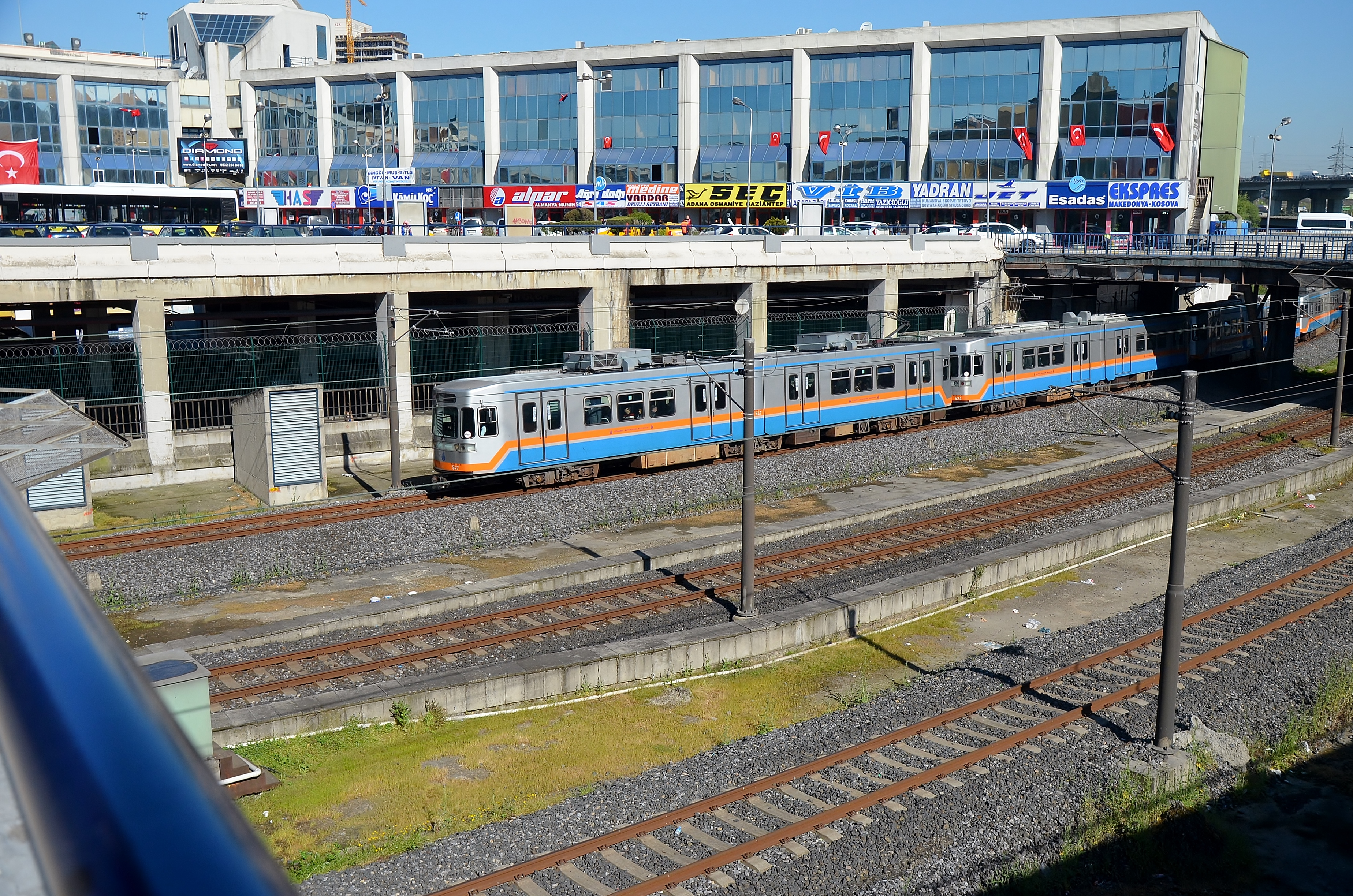 Metro train at Otogar metro station of Esenler Bus Terminus (Otogar) in Istanbul, Turkey